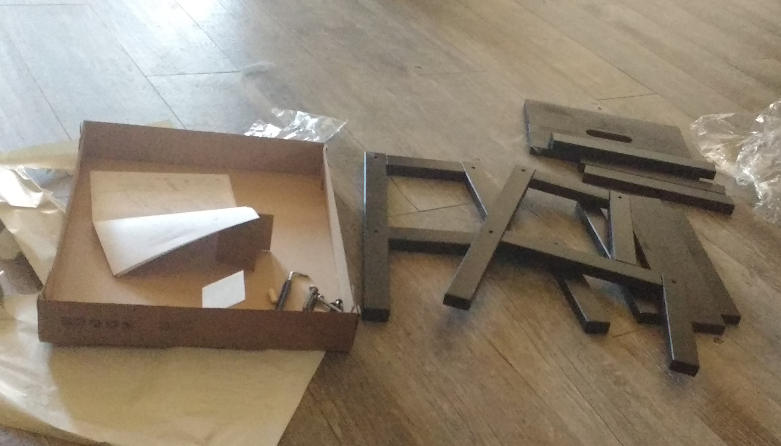 Ikea Frustration